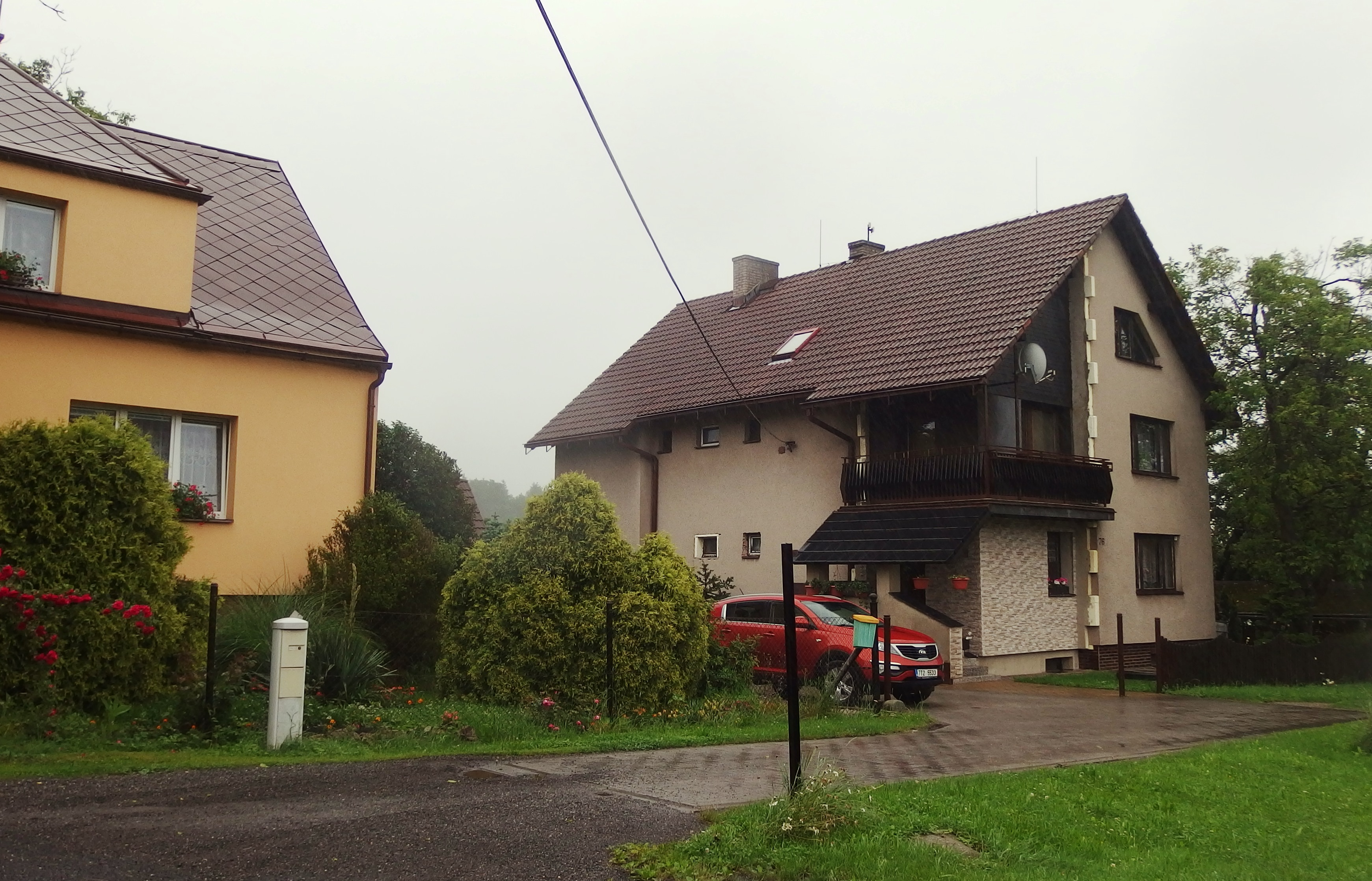 Třinec, Frýdek-Místek District, Czechia, part Osůvky.